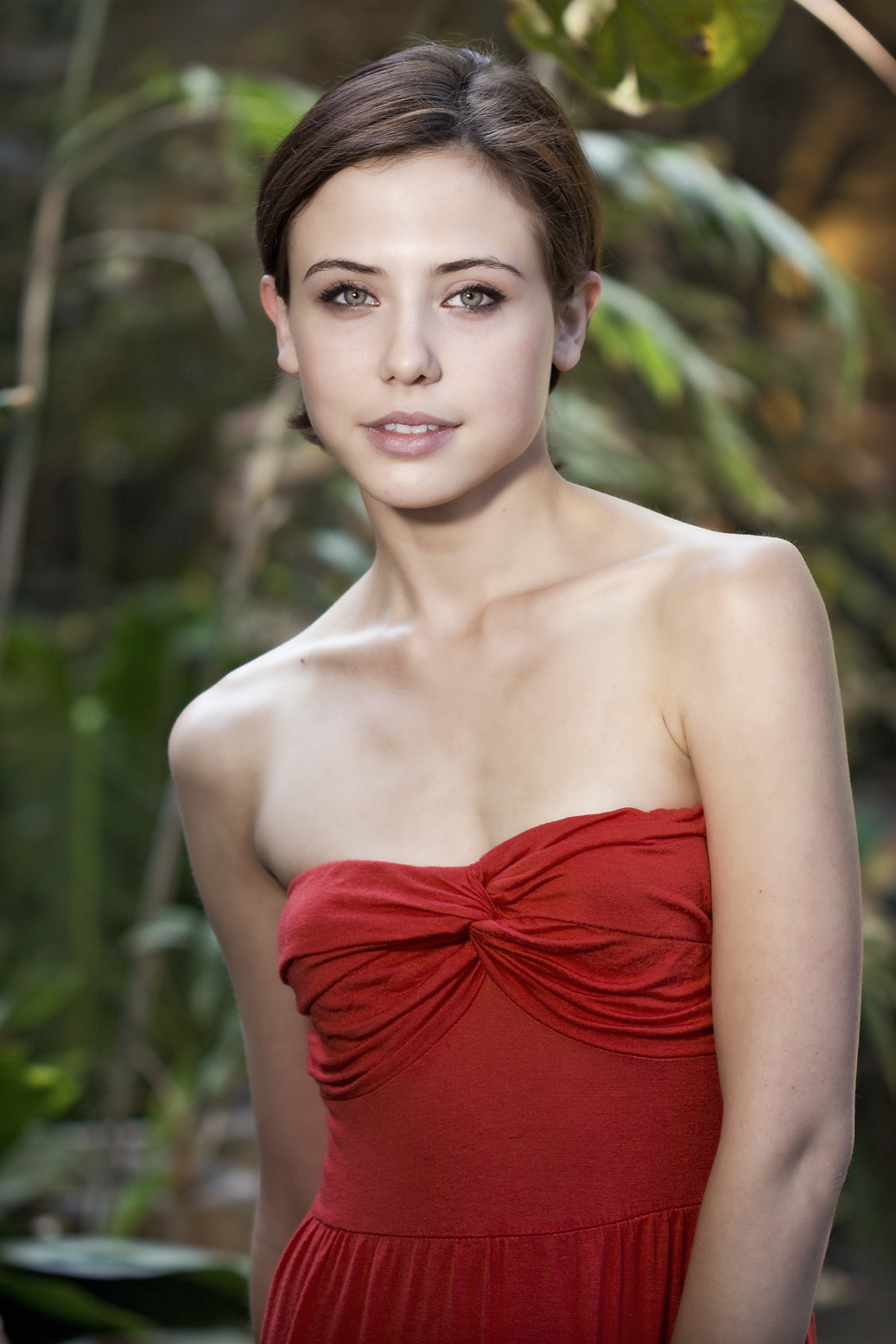 Leila Ryzvanauna ISMAILАVA (Leila Ryzvanauna Ismailli, born on July 28, 1989 in the city of Minsk, Belarus) is a Belarusian journalist, host of musical television programs, model. Photo: Rodelio Astudilo.